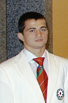 Rovshan_Bayramov.